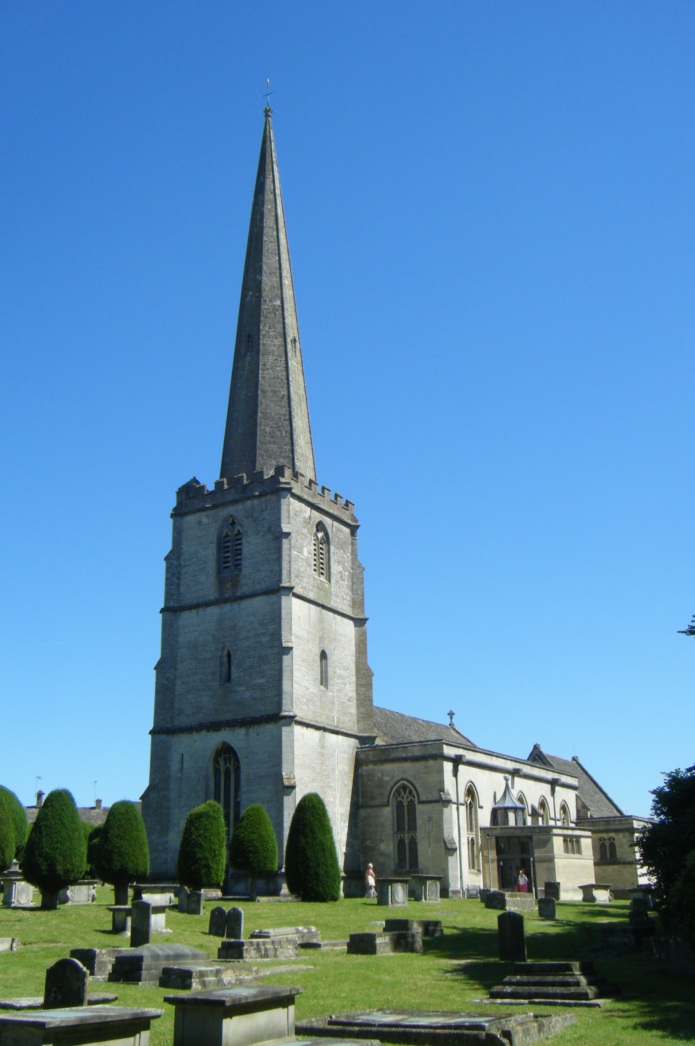 C15th Perpendicular Painswick Church, 07/12. Perpendicular architecture is uniquely English and a much simpler form than the Flamboyant architecture which followed the Decorated period in Europe. Thus, whilst Decorated period churches in England and the Continent are somewhat similar (or, at least, not dissimilar) in style, English Perpendicular churches and European Flamboyant ones are poles apart.